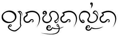 Lanna script – Wiang Nong Long is a district (amphoe) of Lamphun Province, northern Thailand.